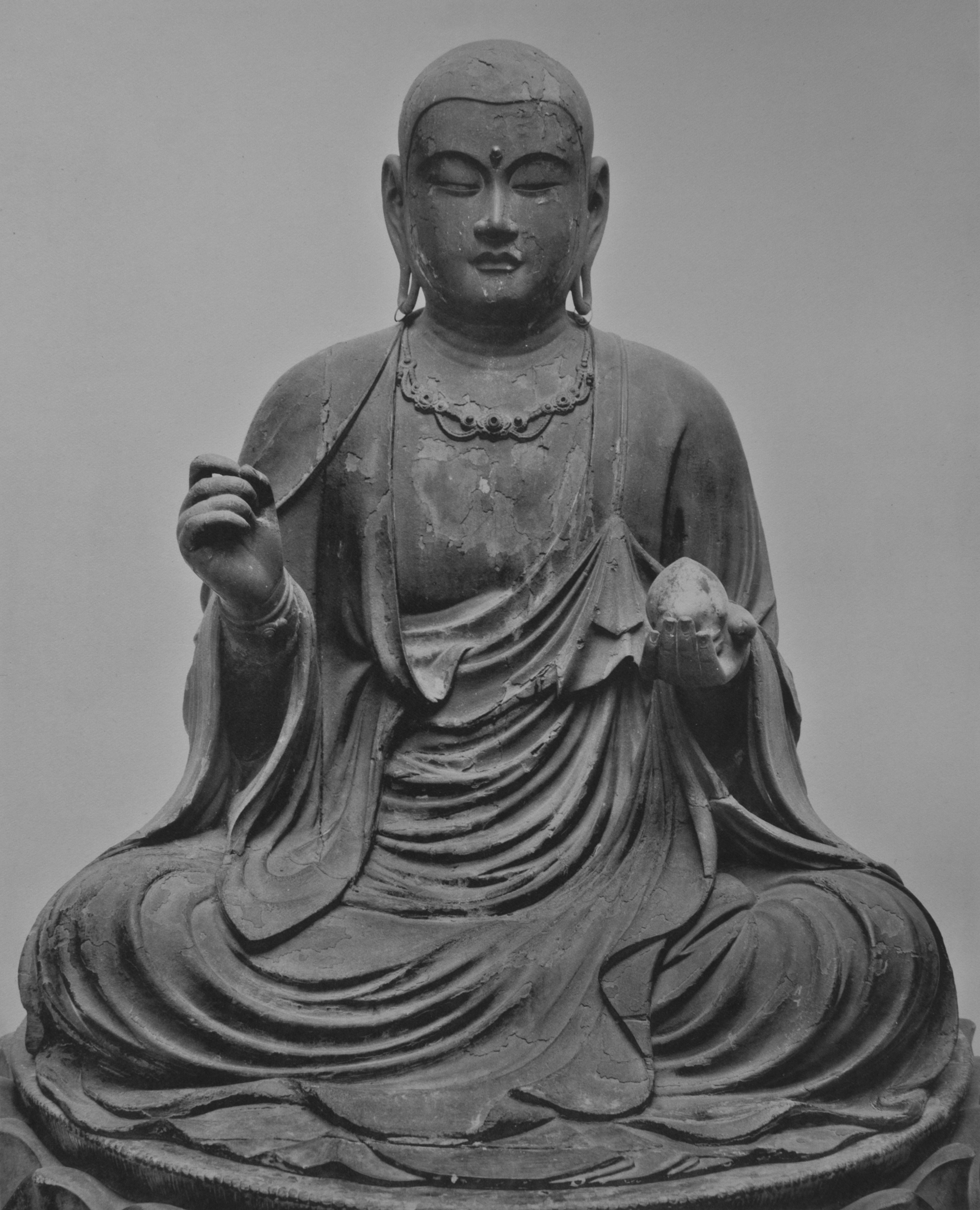 Rokuharamitsuji, Kyoto, Japan